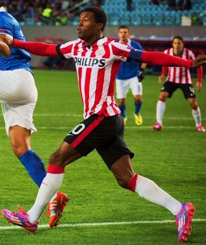 Georginio Wijnaldum